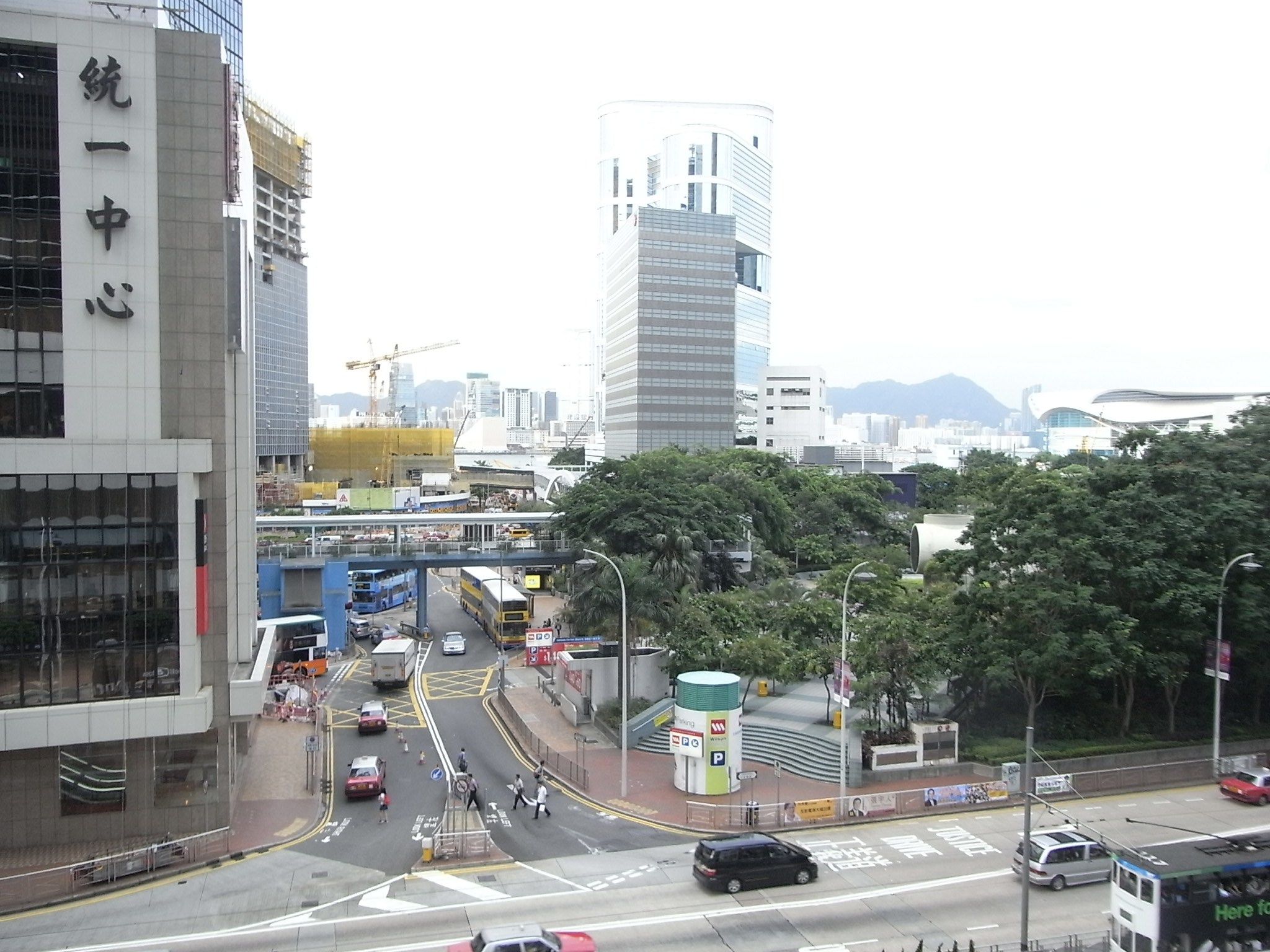 香港島金鐘